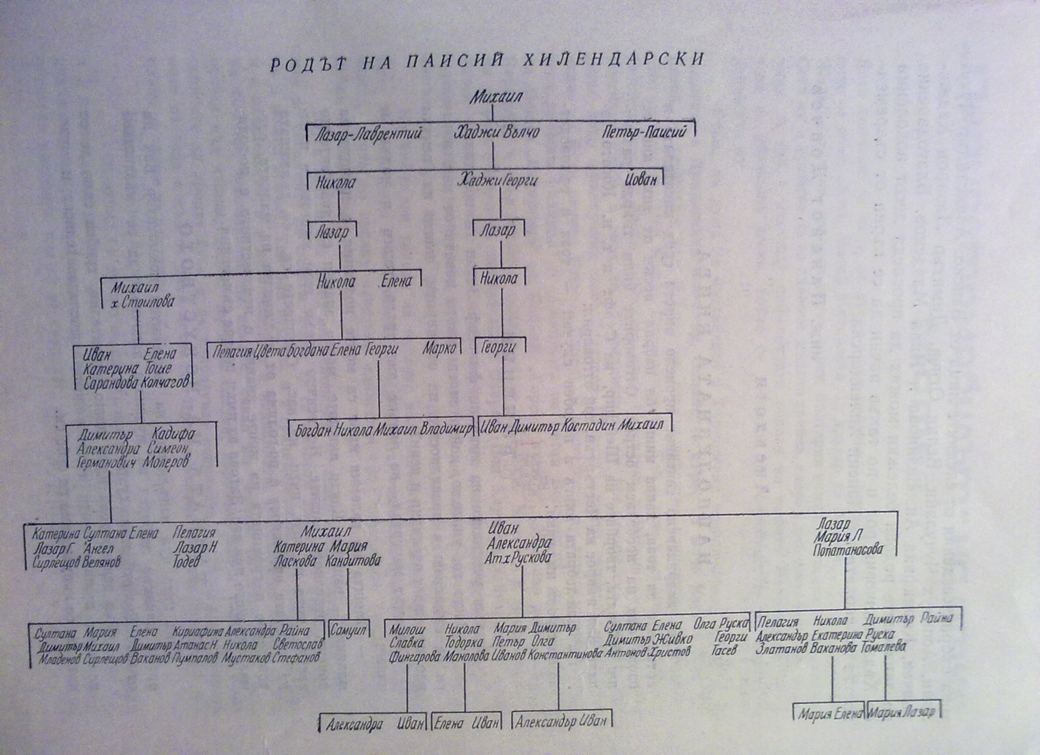 Родът на Паисий Хилендарски